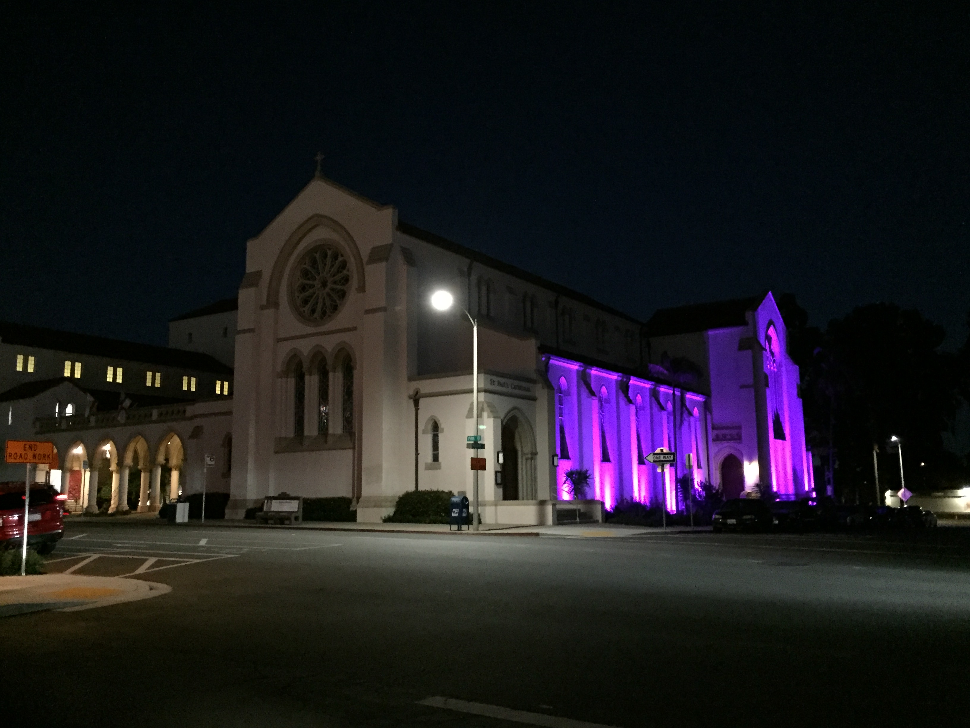 St. Paul's Episcopal Cathedral in San Diego, California at night.